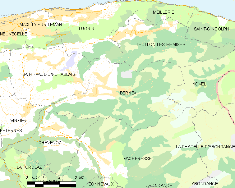 Map of French municipality Bernex